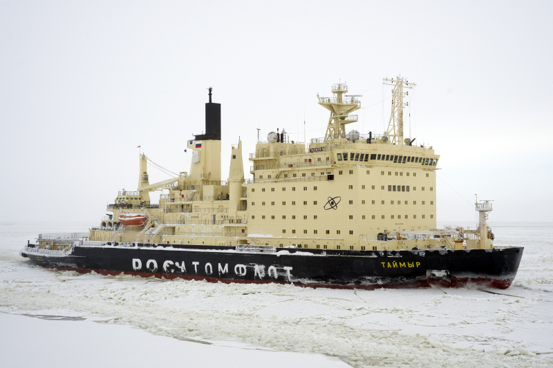 Shallow-draft nuclear-powered icebreaker Taymyr in the Gulf of Ob, Russia.